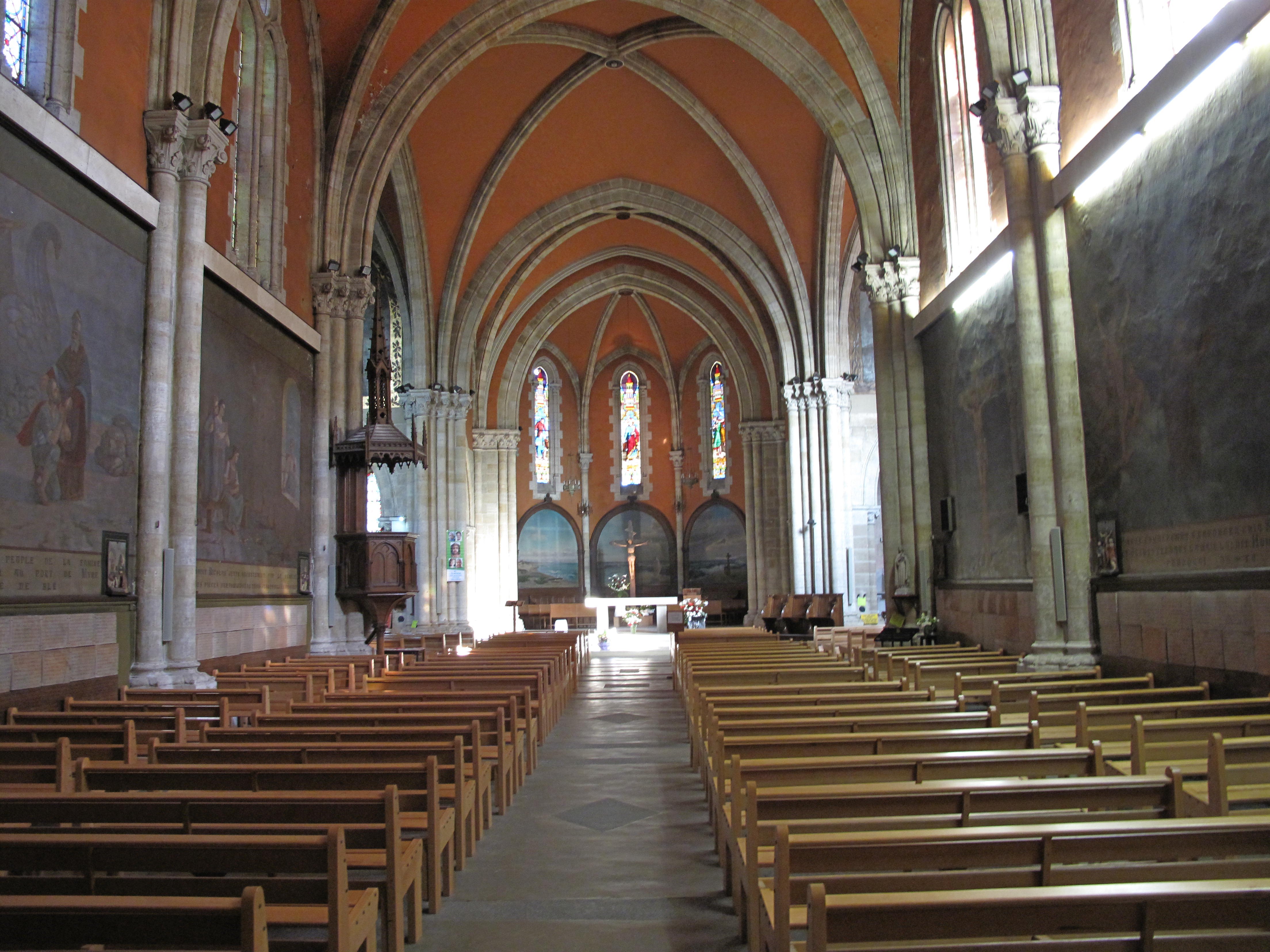 The nave of the Saint-Nicolas church in Capbreton (Landes, France)